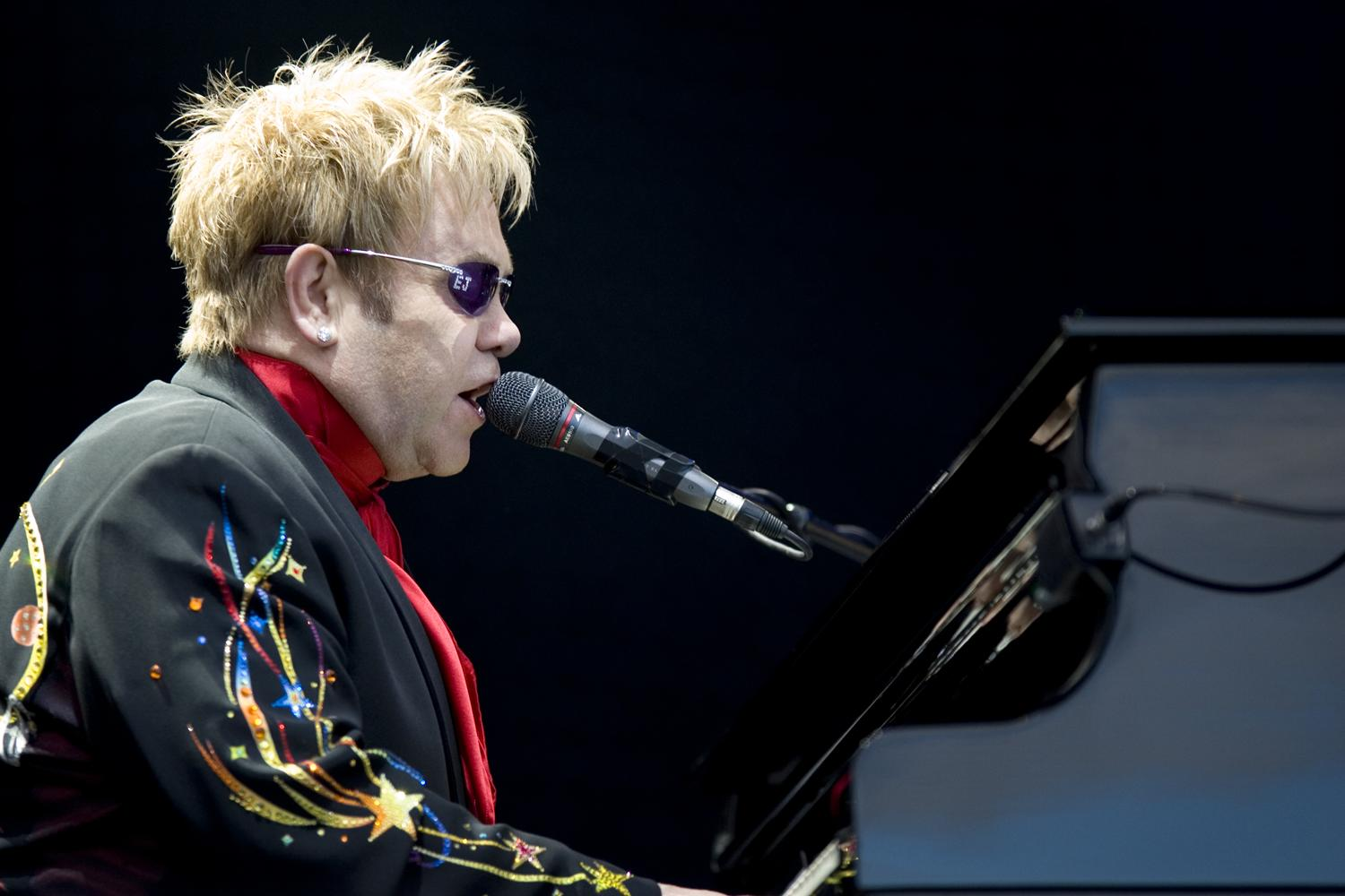 Elton John, English singer-songwriter and pianist, performing on stage at the Keepmoat Stadium, Doncaster, England.